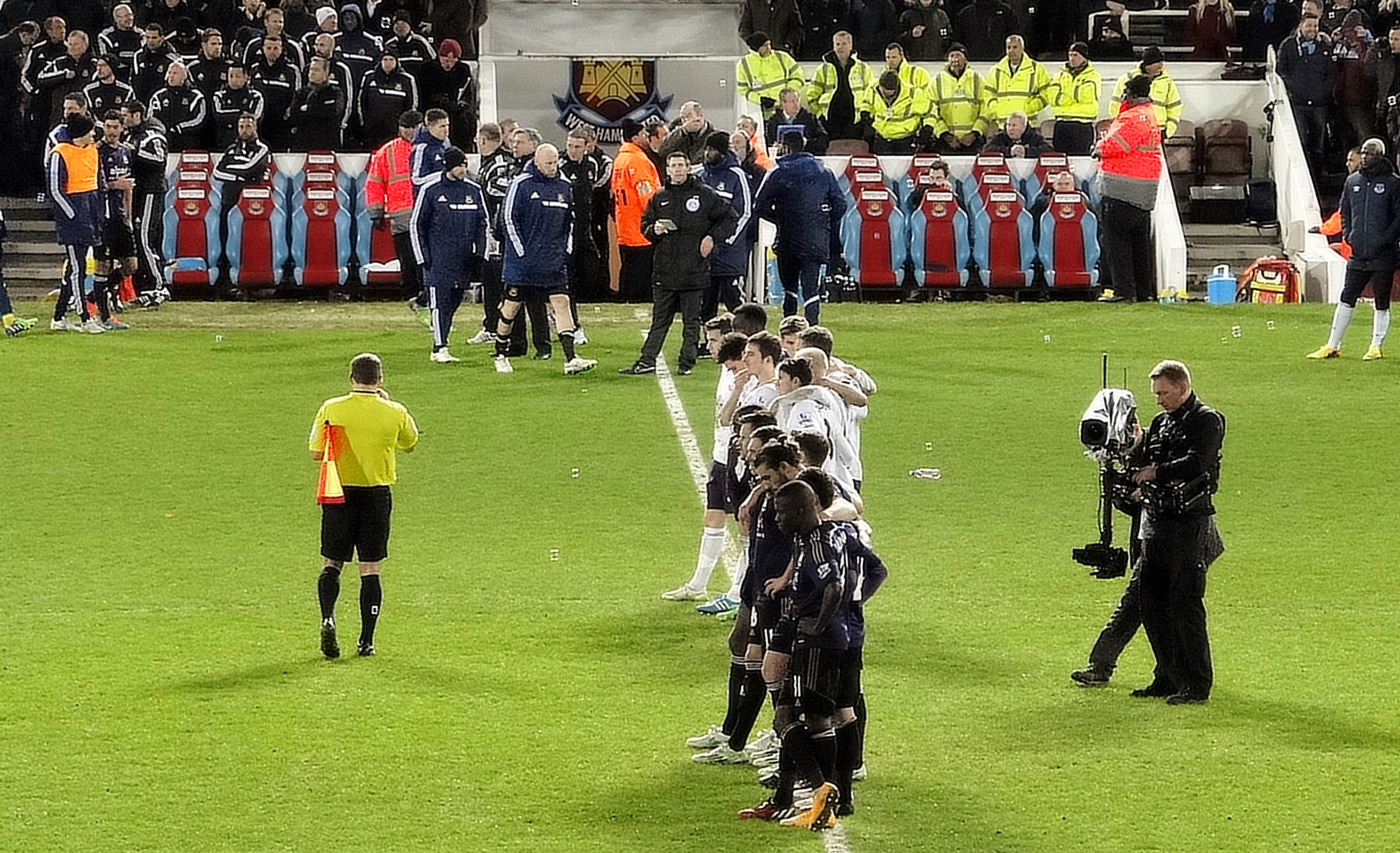 The players of West Ham United and Everton line-up on the halfway line before their FA Cup third round penalty shoot-out at the Boleyn Ground, 13 January 2015